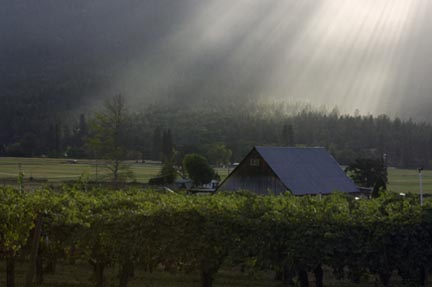 An example of Jānis Miglavs' work.